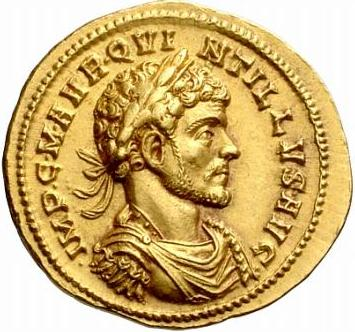 Quintillus, 270, Aureus, Milan September-November 270, 5.15 g. IMP C M AVR QVI – NTILLVS AVG Laureate, draped and cuirassed bust r. RIC –. C –. Vagi 2396. Calicò 3968 (these dies). H. Huvelin and J. Lafuarie, RN 1980, 54 (these dies).